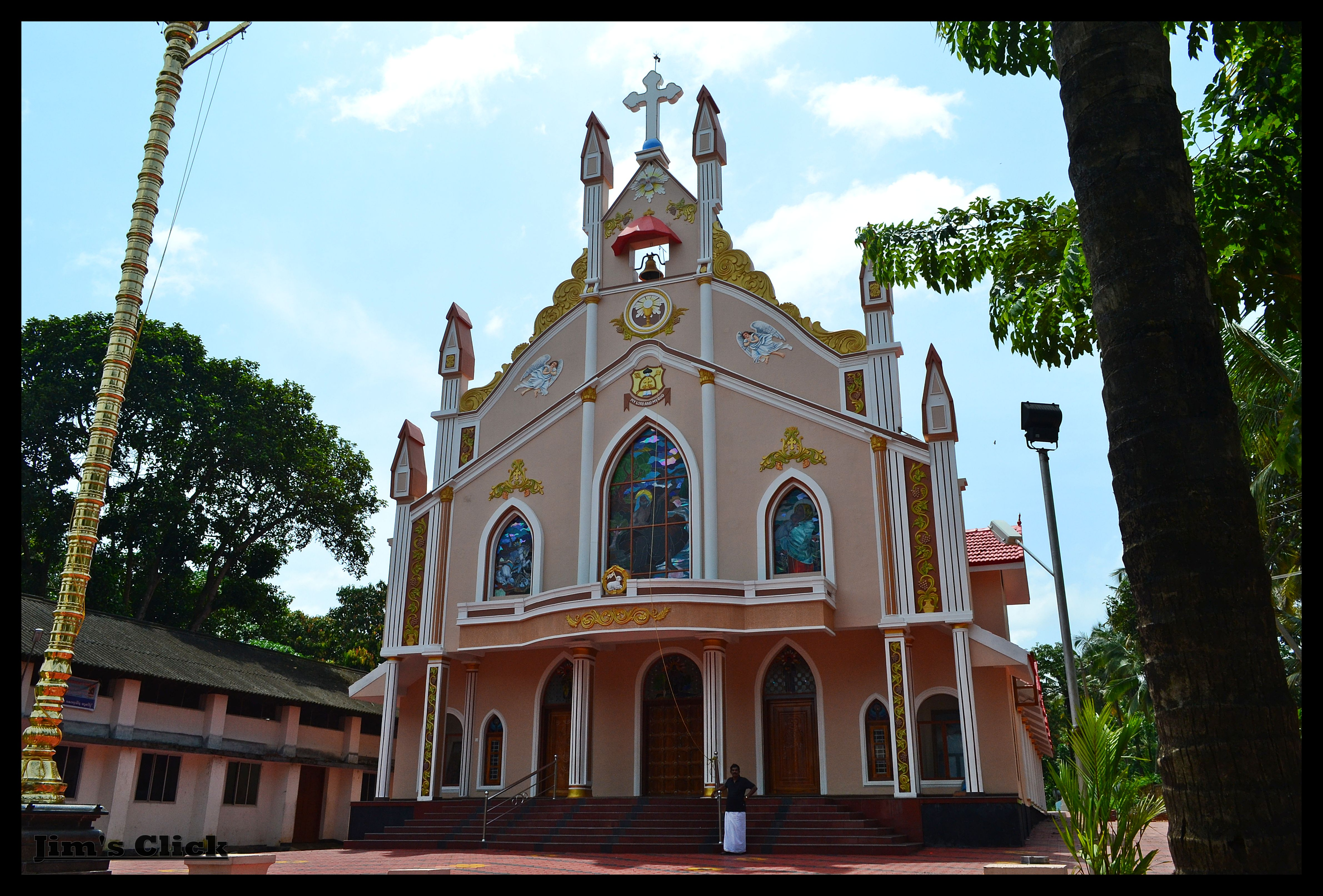 This pic has been taken after the renovation in July 2011.